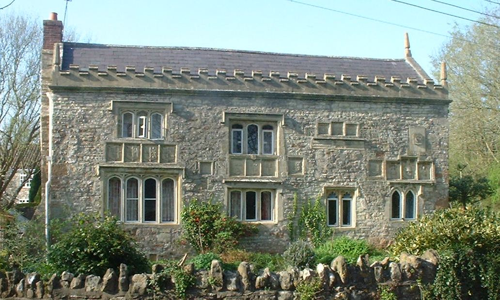 The Rectory in Chew Stoke. Taken by Rod Ward 26th April 2006